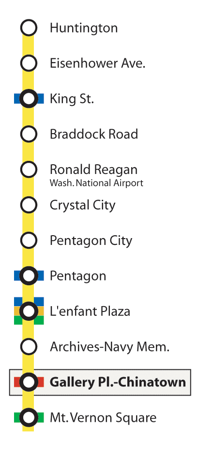 Gallery Place-Chinatown station Yellow line service on Washington Metro.